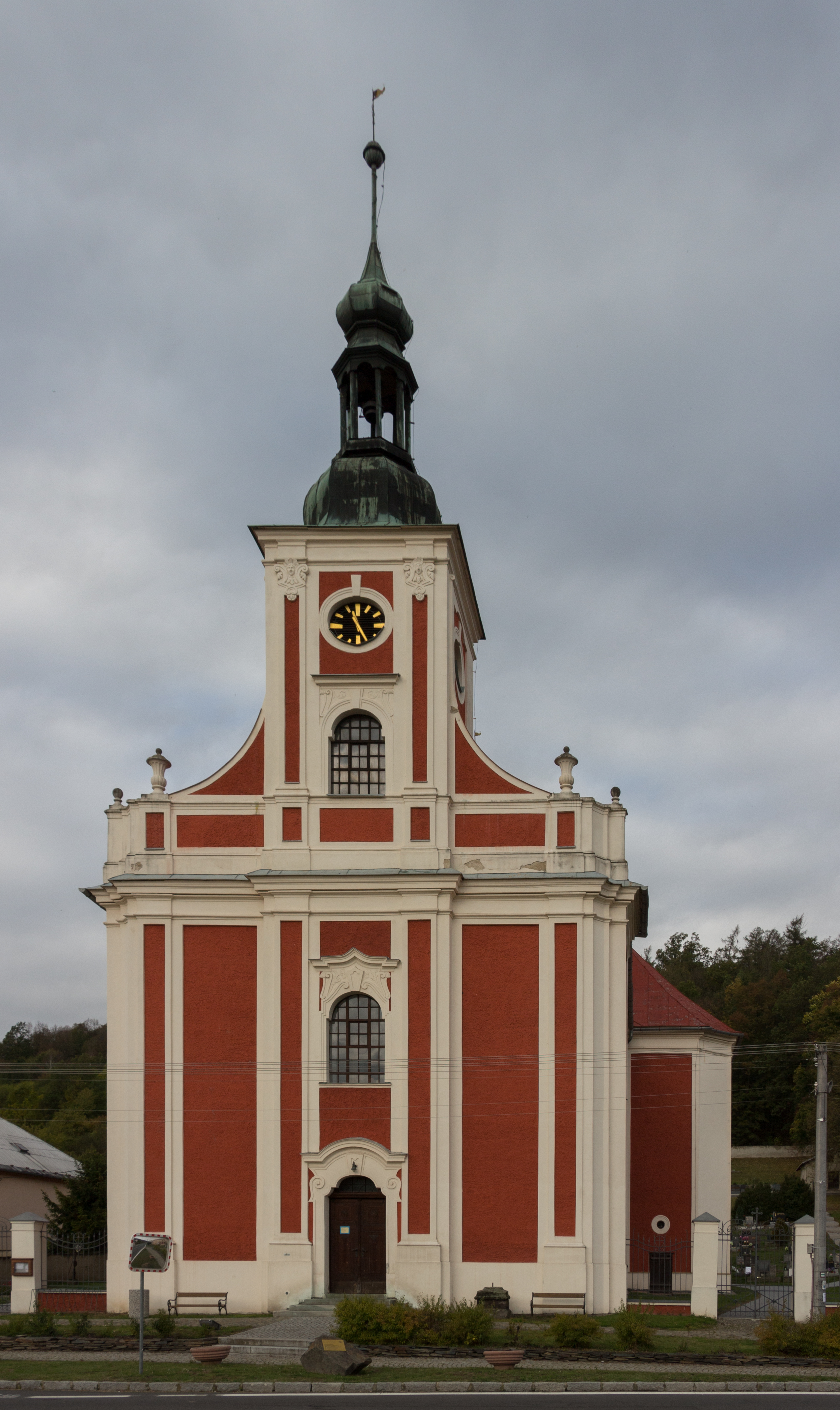 Church of Saint Nicholas. Lichnov, Bruntal District, Czech Republic